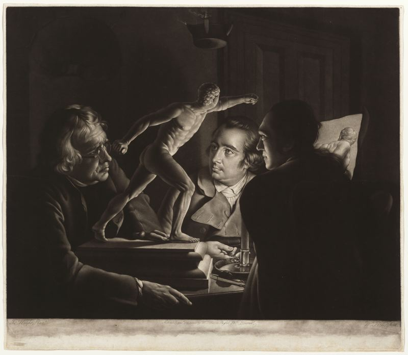 Mezzotint by William Pether, 1769, after the painting by Joseph Wright, 1765, "Three Persons Viewing the Gladiator by Candlelight"